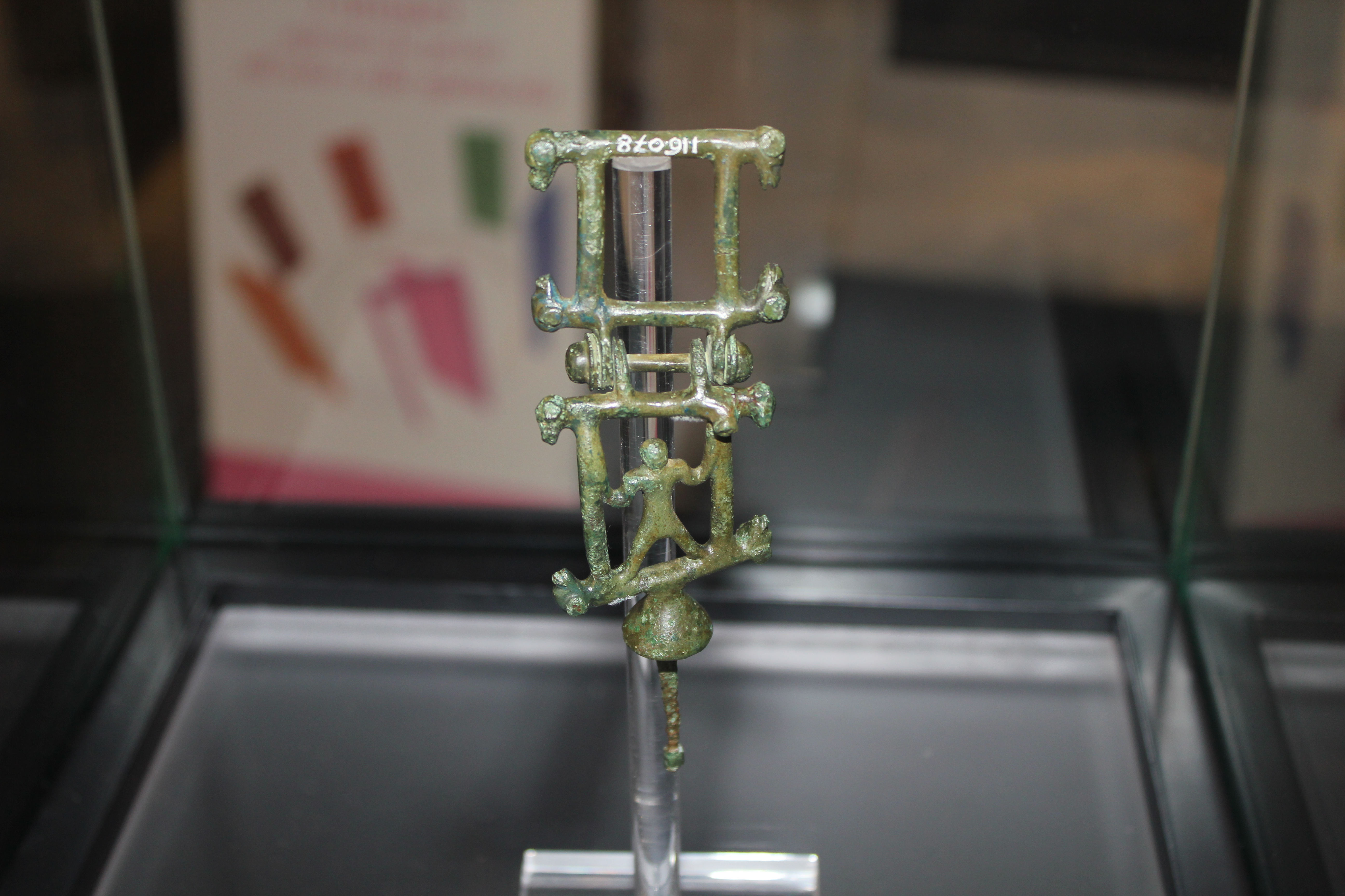 Etruscan Museum, Scarlino